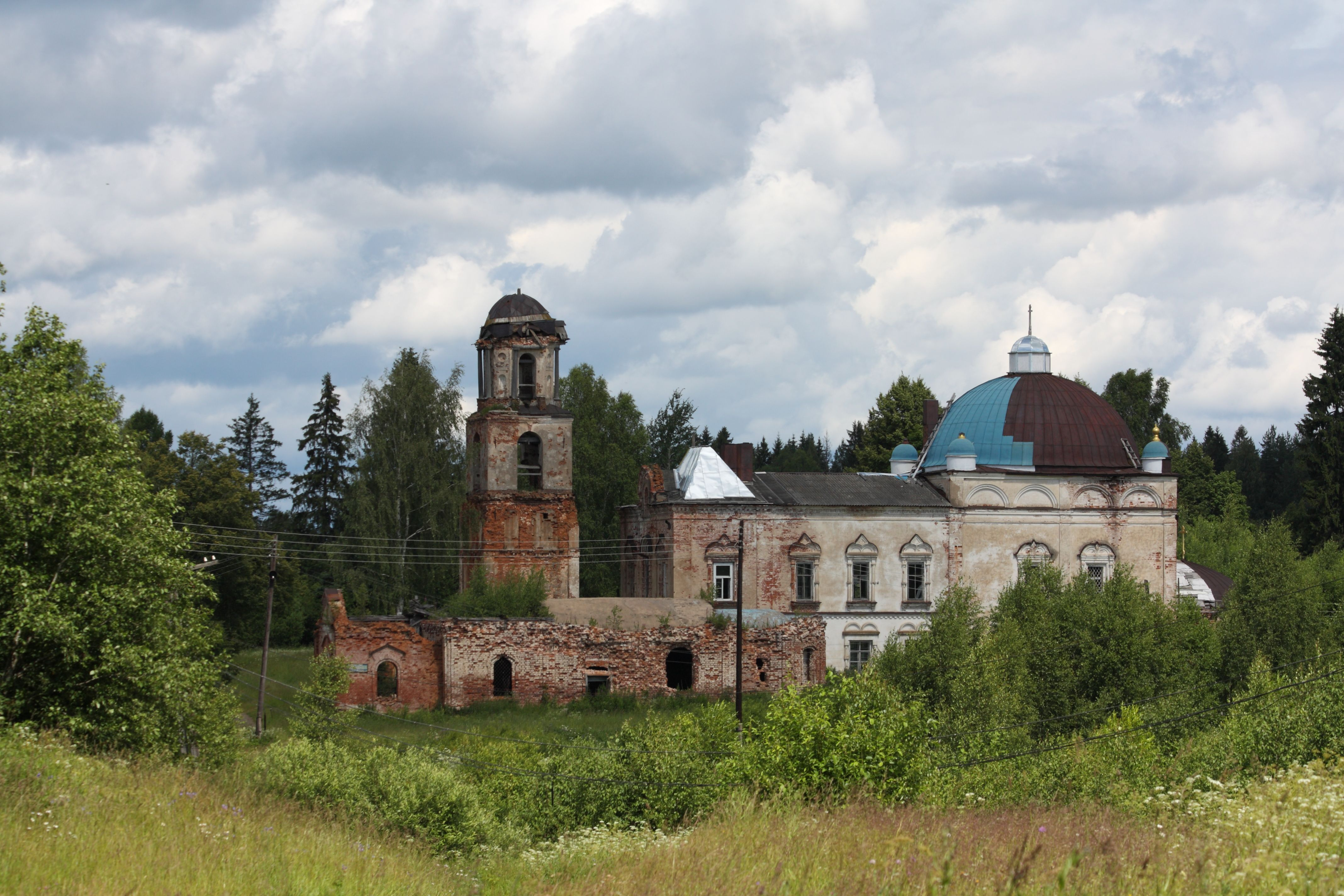 Uspensky cathedral (village Mogilyovka, Kuvshinovsky district of Tver Oblast, Russia)